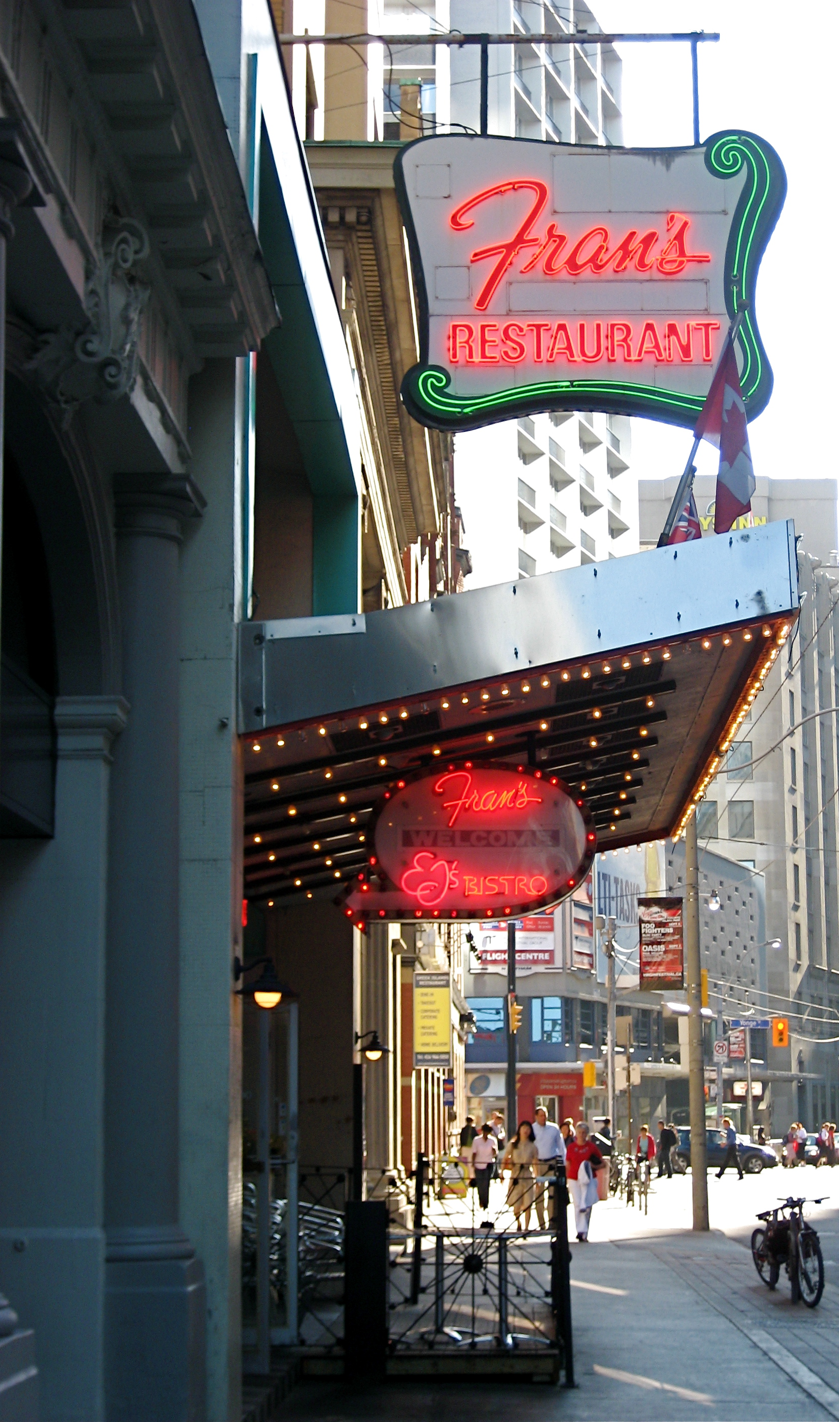 Fran's Restaurant, a 24-hour diner on College Street, Toronto, Canada.